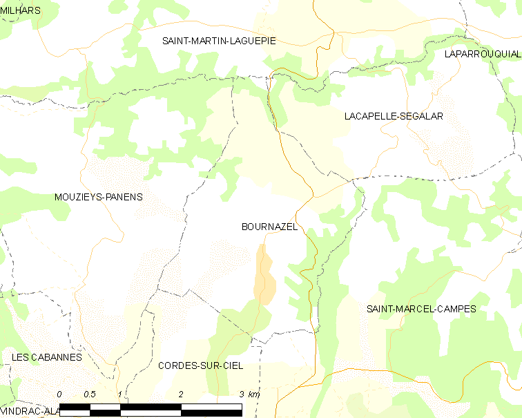 Map of French municipality Bournazel